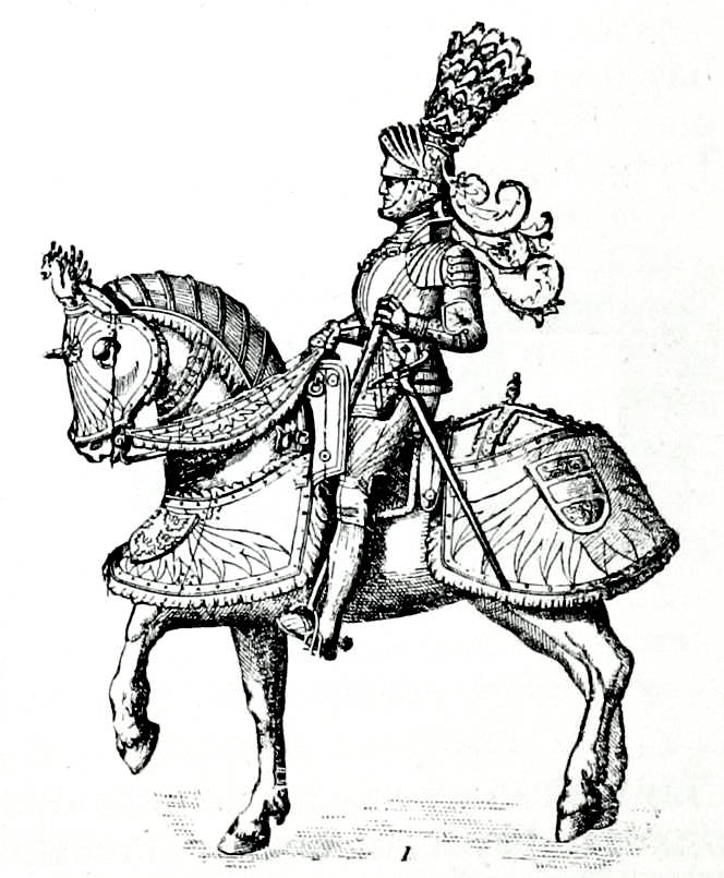 Military art (military science)